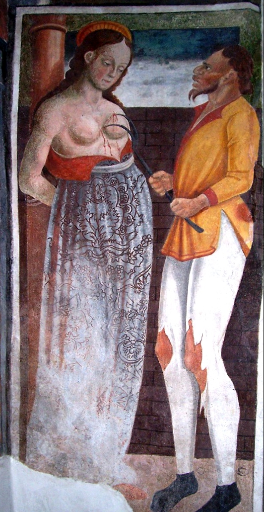 Martyr of Sant'Agata (Giovan Pietro da Cemmo & aids), St Mary, Esine, Val Camonica